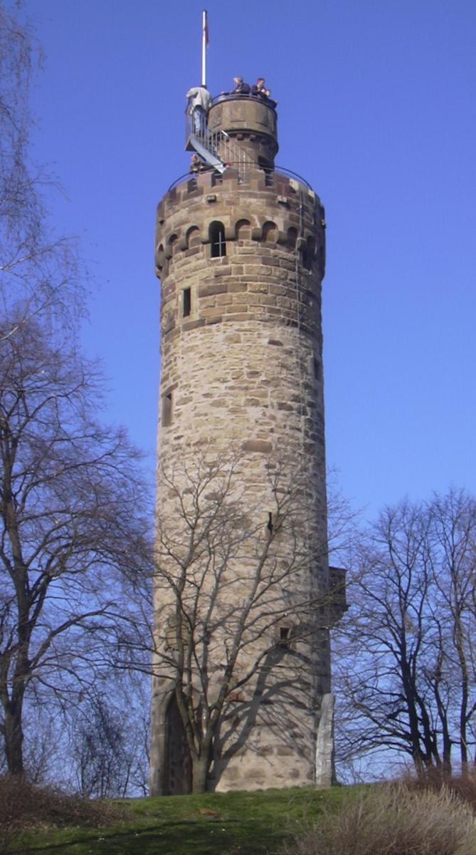 The view tower "Heuchelberger Warte" near Heilbronn, Germany